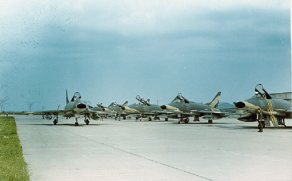 36th Tactical Fighter Squadron - F-100s